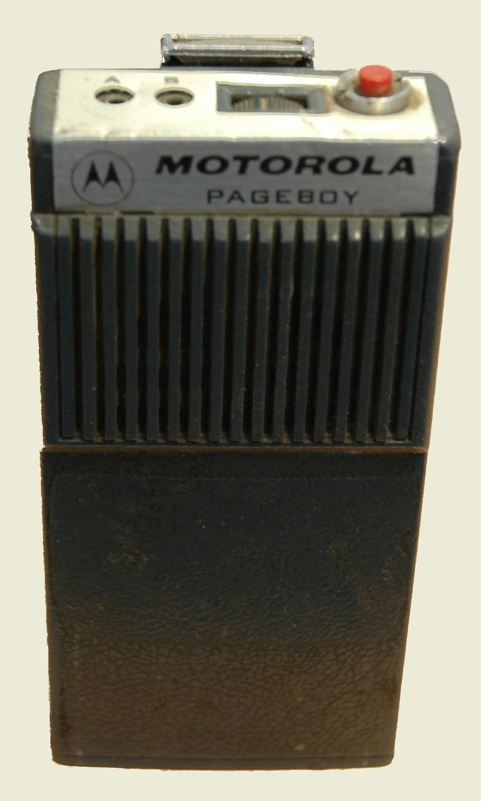 Photo of a Motorola Pageboy Motorola type: H03BNC1102D0 Author: Wilbert van de Kolk Date of photo: 05 mei 2006